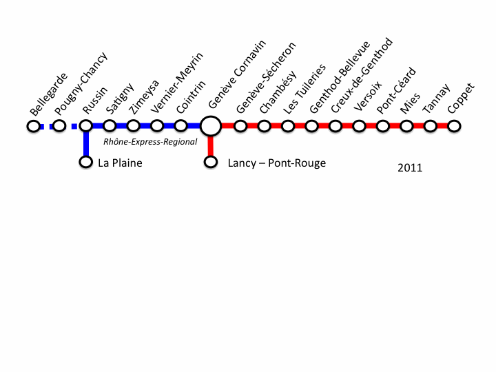 Geneva local rail network map 2011